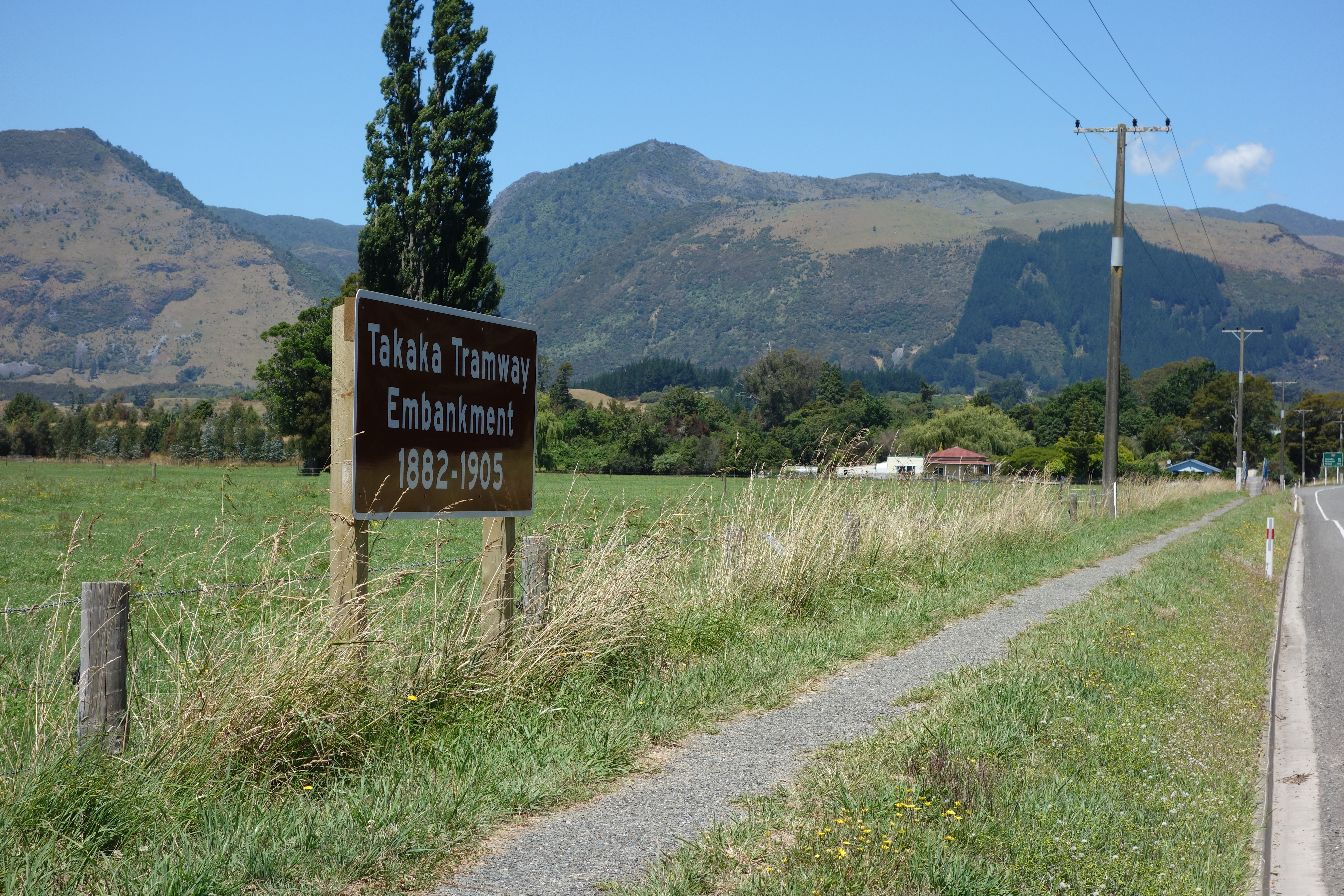 Takaka tramway embankment alongside SH60